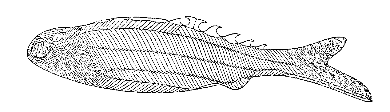 Restoration of the agnate Birkenia elegans, from the late Silurian of Lanarkshire, Scotland. NOTE: According to later restorations, the image has been rotated by 180° from Woodward's original one.